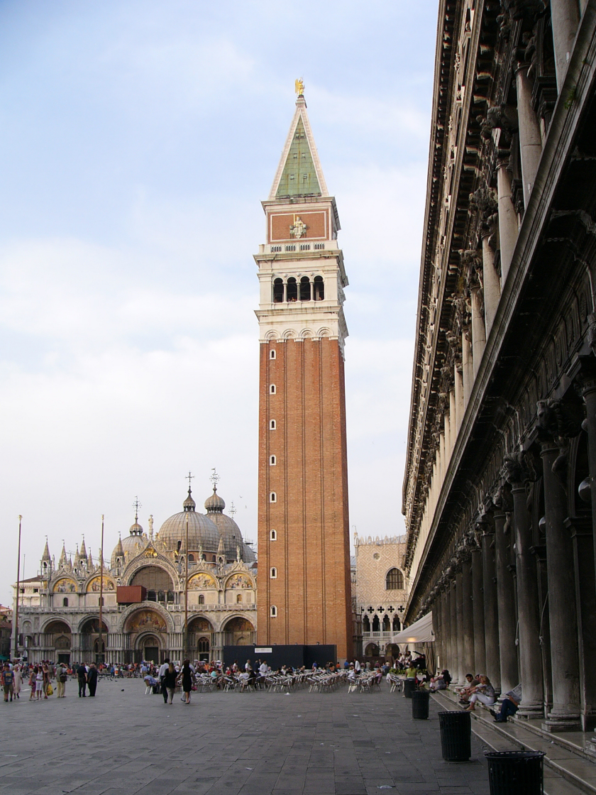 St. Mark's Square in Venice, Italy.